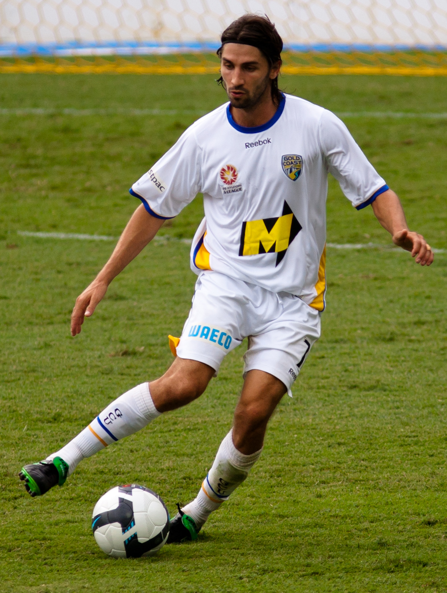 Zenon Caravella playing for Gold Coast United against Sydney FC in the 2009-10 A-League.